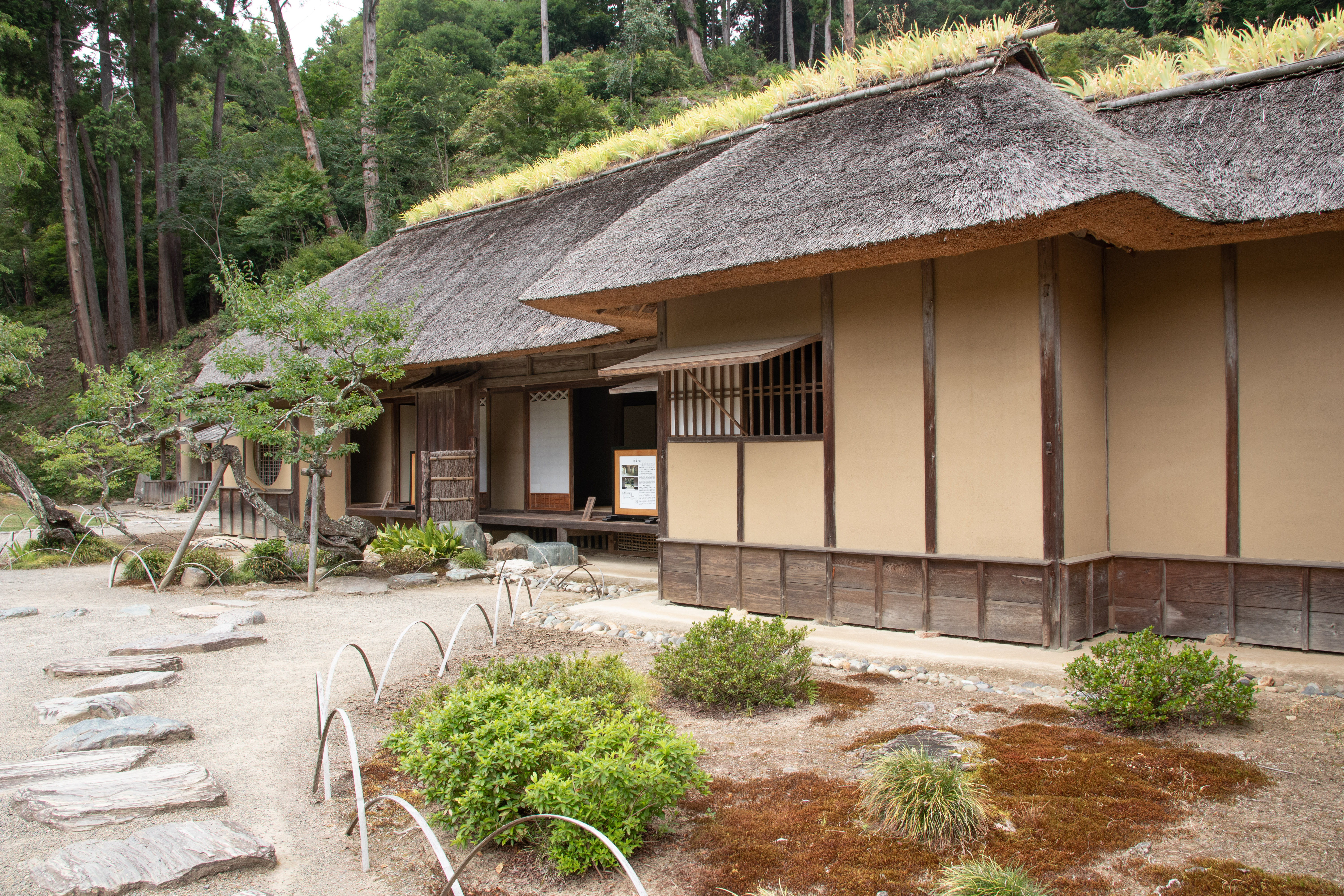 Seizanso(西山荘 せいざんそう), Hitachi-Ota City, Ibaraki, Japan